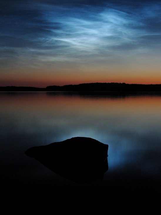 A bright noctilucent cloud over Lake Saimaa.